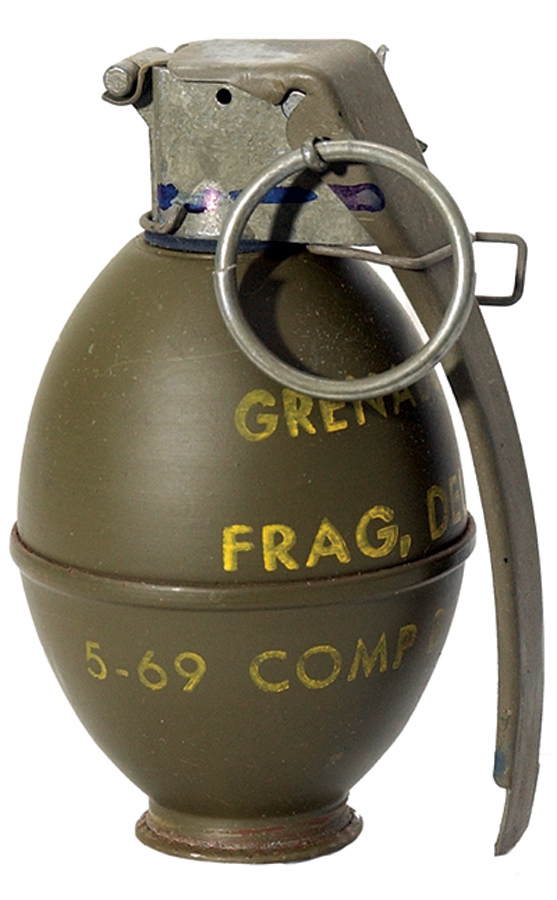 M-61 Frag Grenade. Primary function: Anti-personnel. Dimensions: Length 3.5 in., diameter 2.5 in. Weight: 13.75 ounces. Maximum effective range: Lethal 16 ft., casualty 49 ft. This particular example was manufactured in May 1969. NOTE: grenade pictured is a M-61 Hand grenade, not the M-67 as labeled on the USAF website at the time.